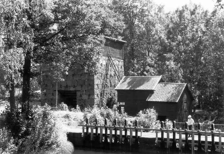 Photo by Harri Blomberg.